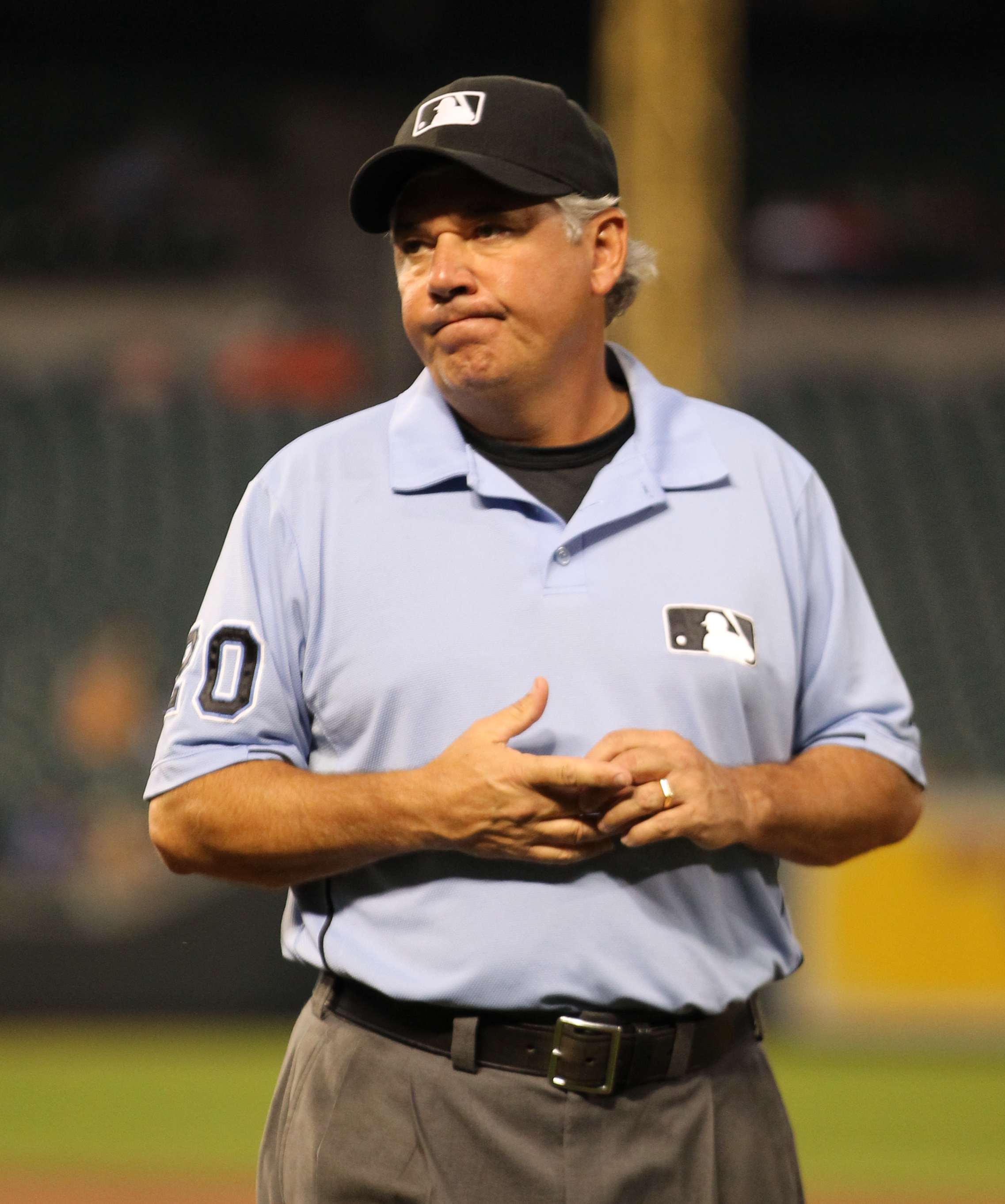 MLB umpire Tom Hallion – Rays at Orioles September 12, 2011